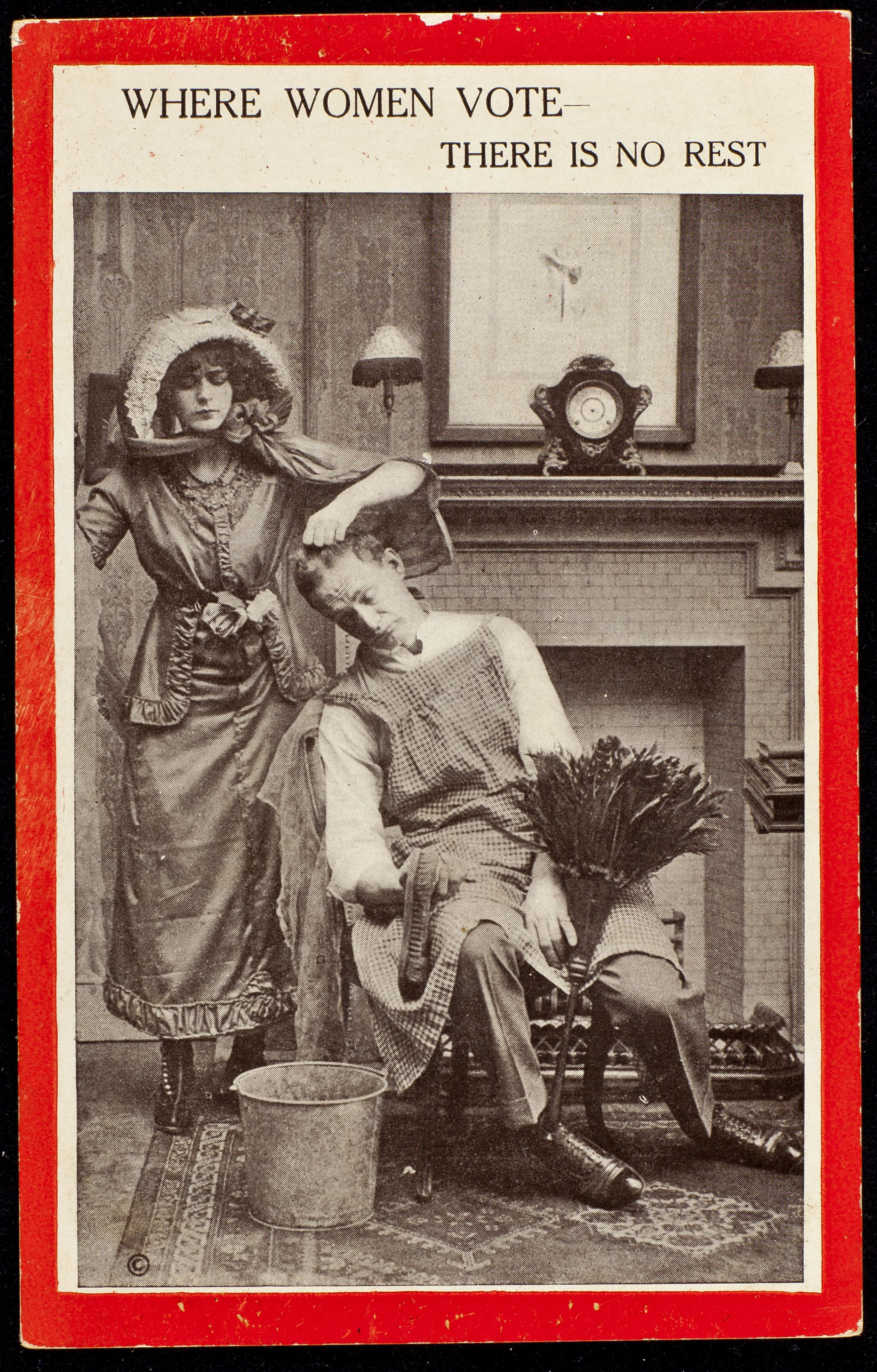 TWL/2004/1011/55